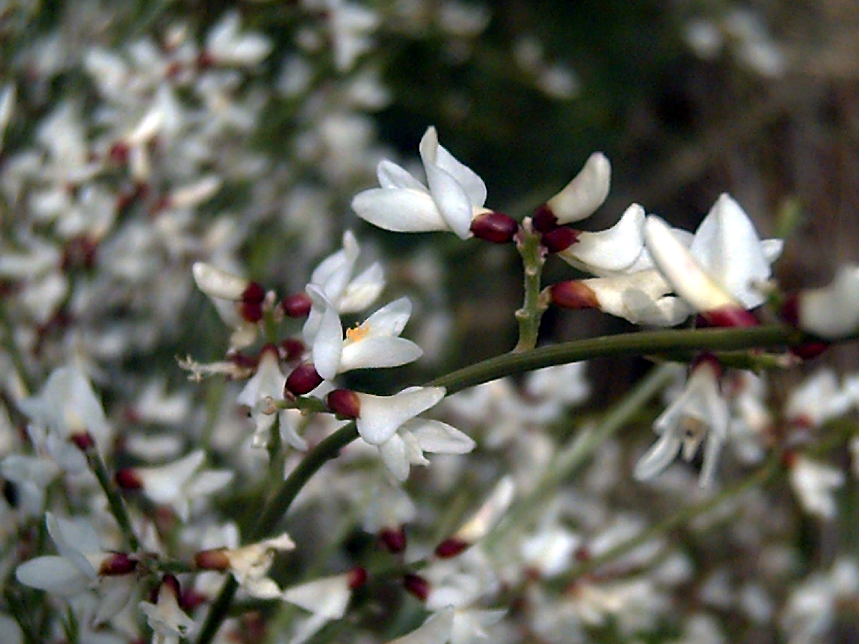 Retama monosperma flowers close up, Dehesa Boyal de Puertollano, Spain